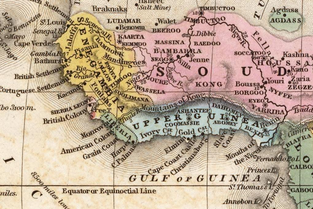 West Africa 1839 Mitchell map - Kong. This map i, featuring the Kong Mountain Range, is drawn from an 1839 atlas published in Philadelphia